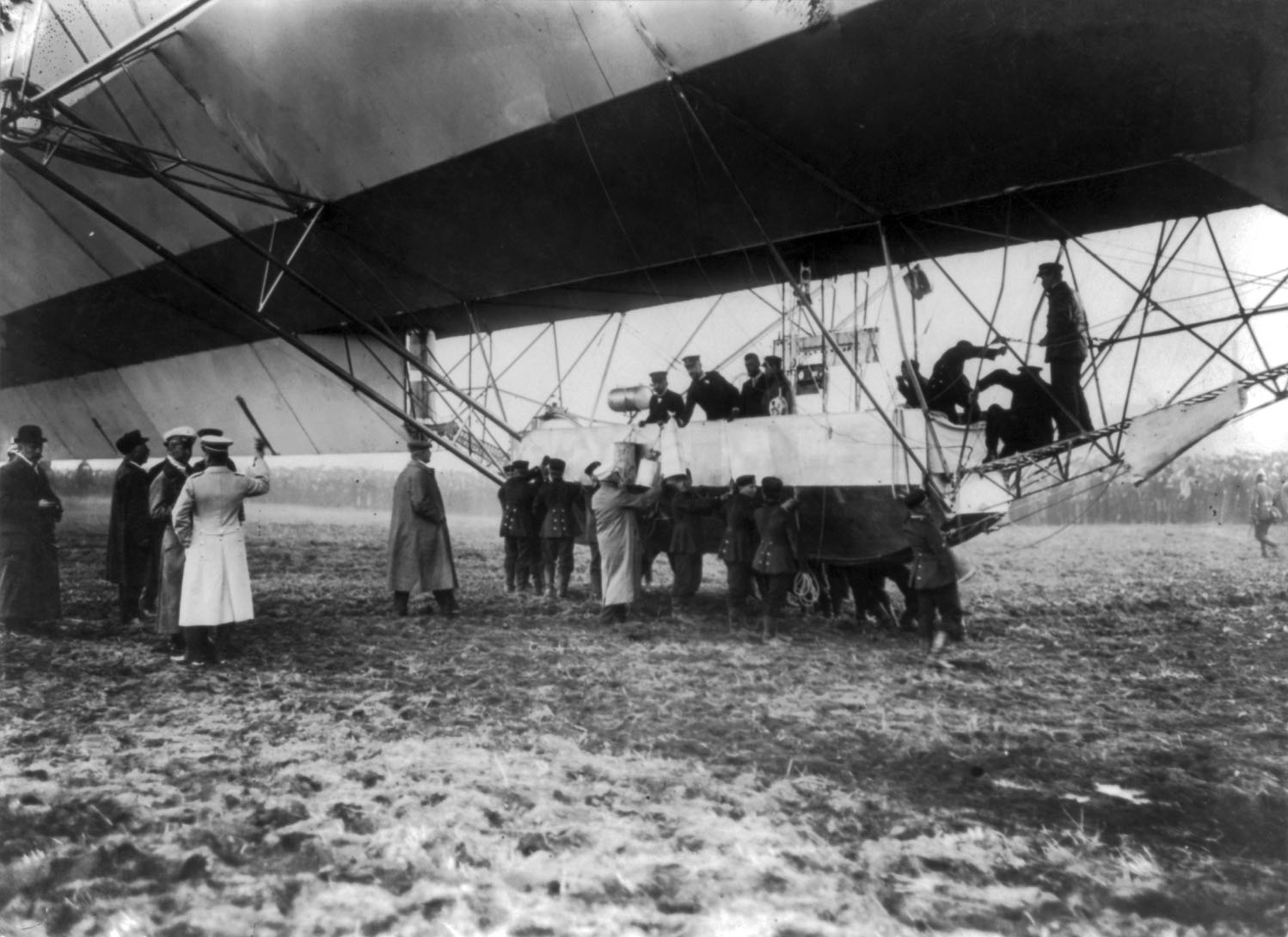 Zeppelin landing in presence of Count Zeppelin and Crown Prince